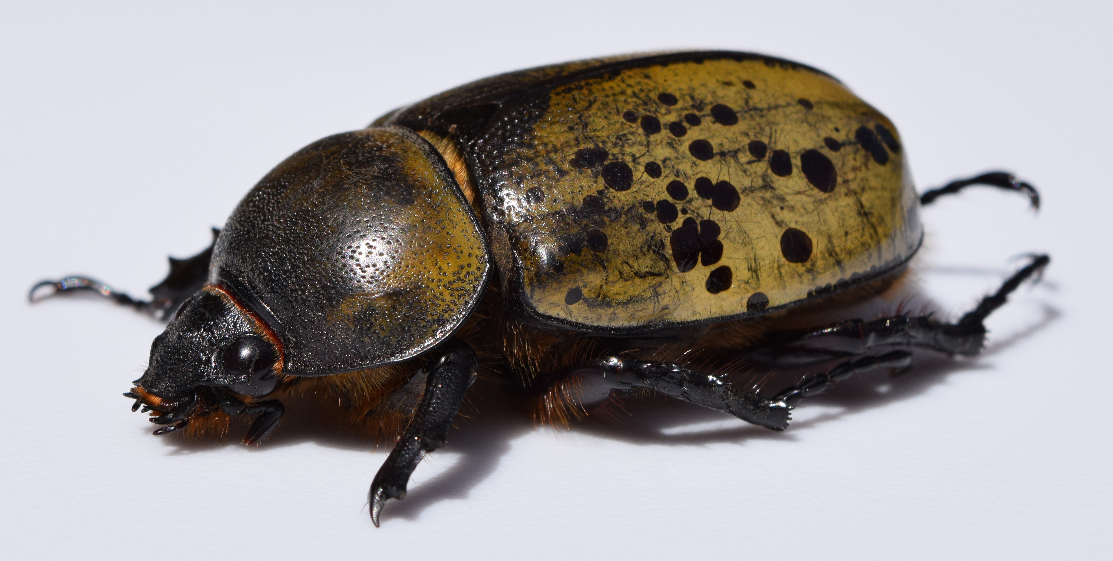 An adult female Dynastes tityus (eastern Hercules beetle) at the University of Mississippi Field Station.